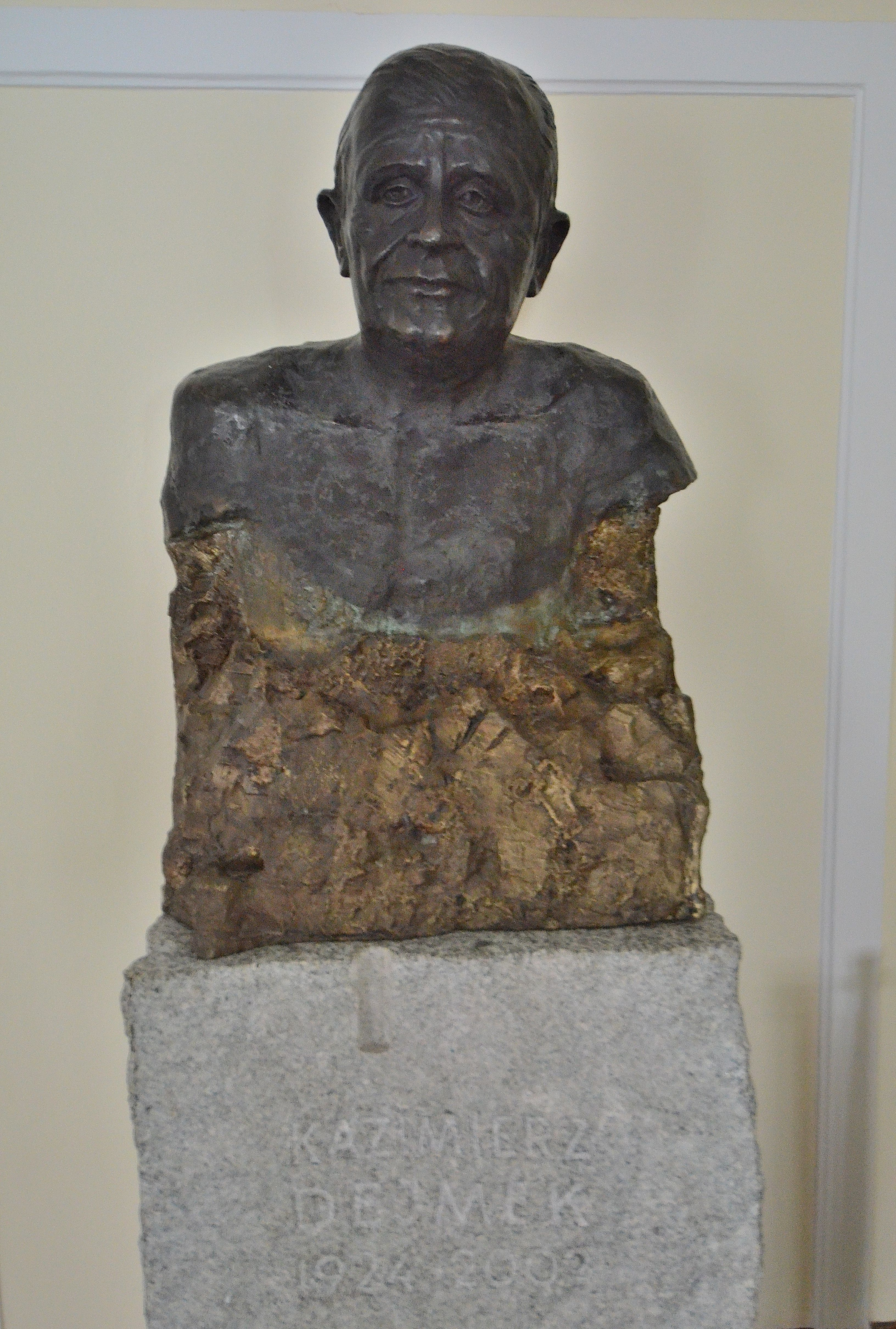 Bust of Kazimierz Dejmek at the Polish Theatre in Warsaw